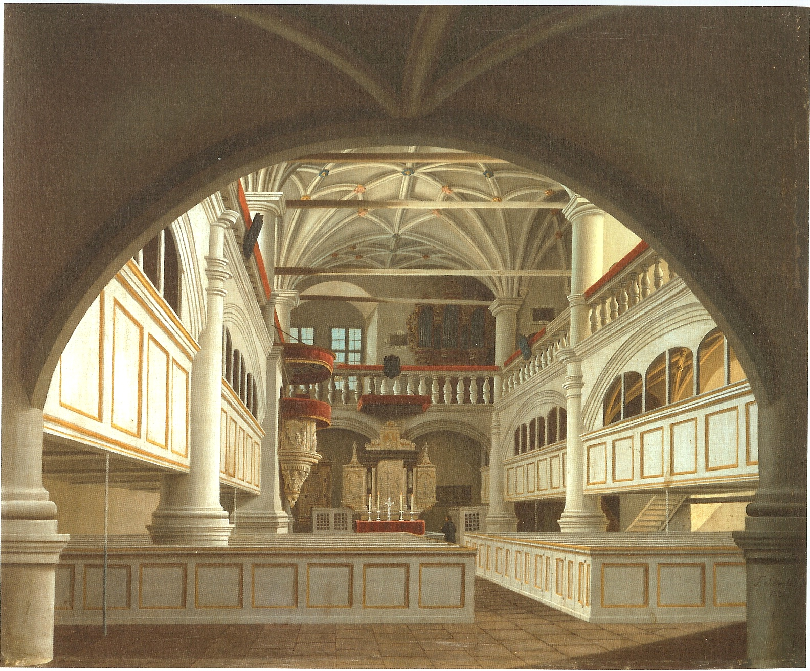 Interior of castle church in Schwerin before the neo-gothic additions and changes, 1839